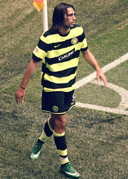 Georgios Samaras of Celtic FC